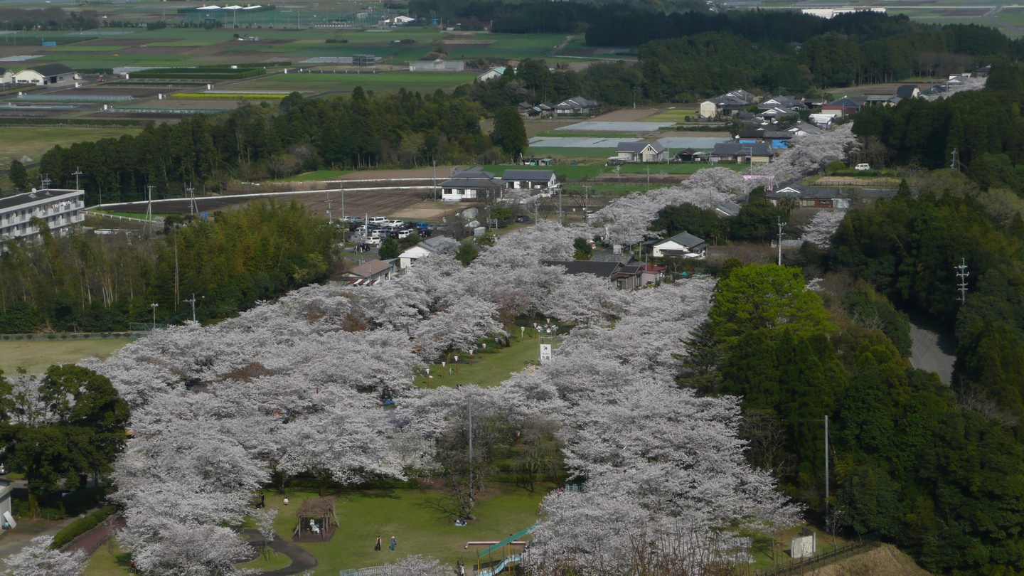 Mochio Park (Miyakonojo City, Miyazaki, Japan)